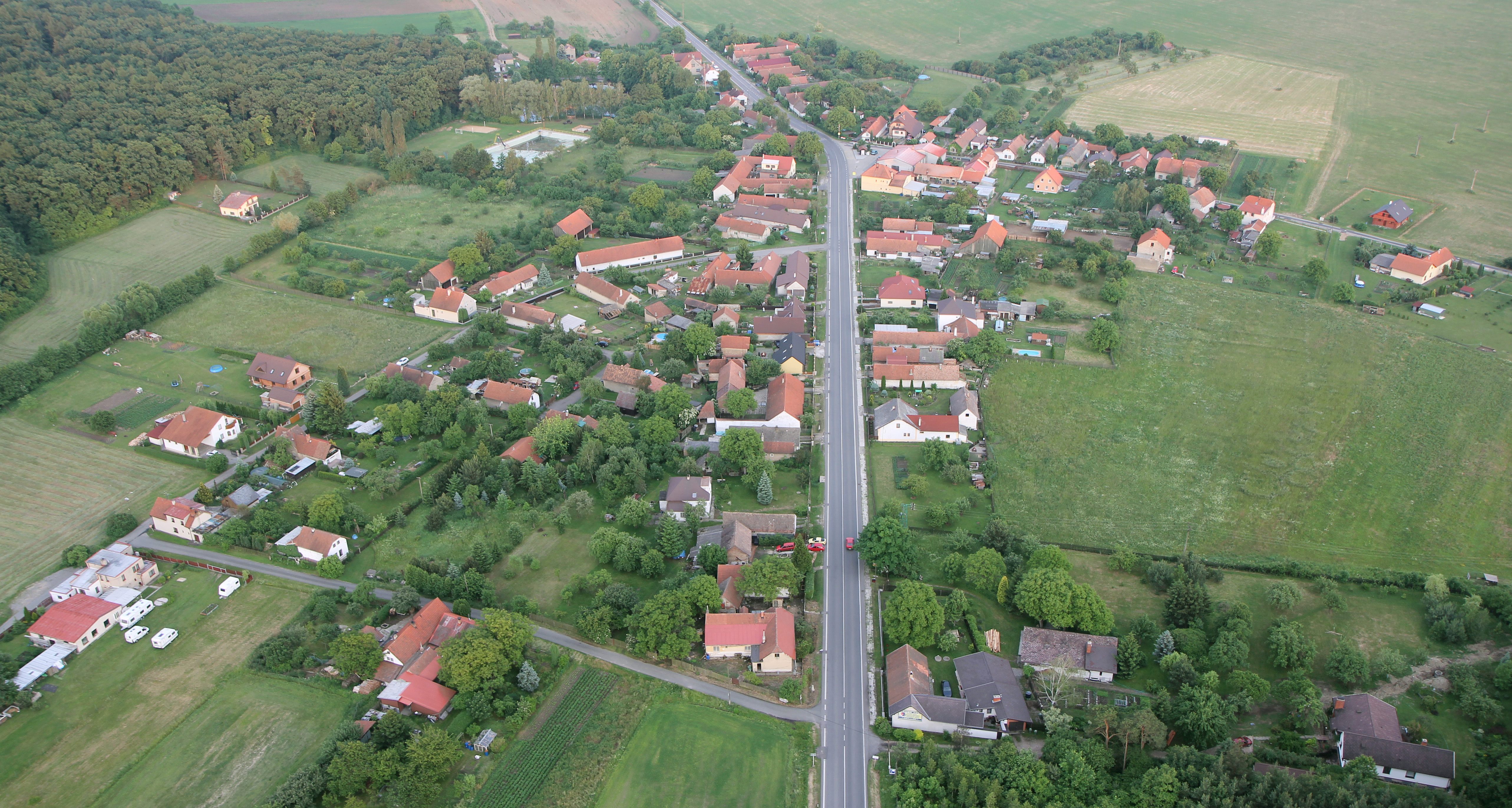 aerial photo